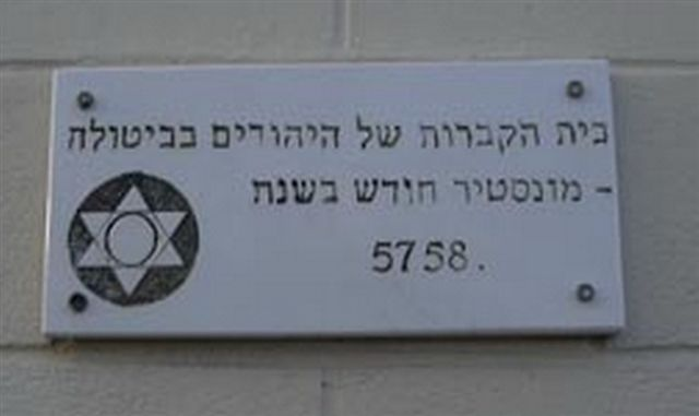 Bitola Jewish Cemetery. Credit: Courtesy of Arie Darzi to memorialize the Jewish community in Macedonia.